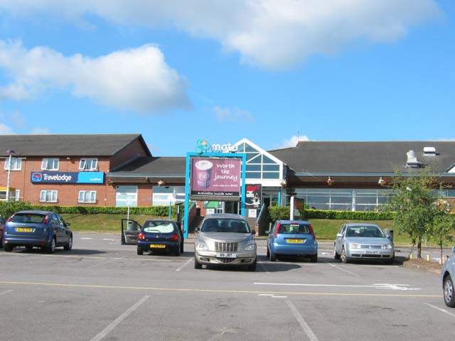 Cardiff West Motorway Services, situated near to Capel Llanilterne, Cardiff. Off junction 33 of the M4. For more information, see Wikipedia article Cardiff West services.